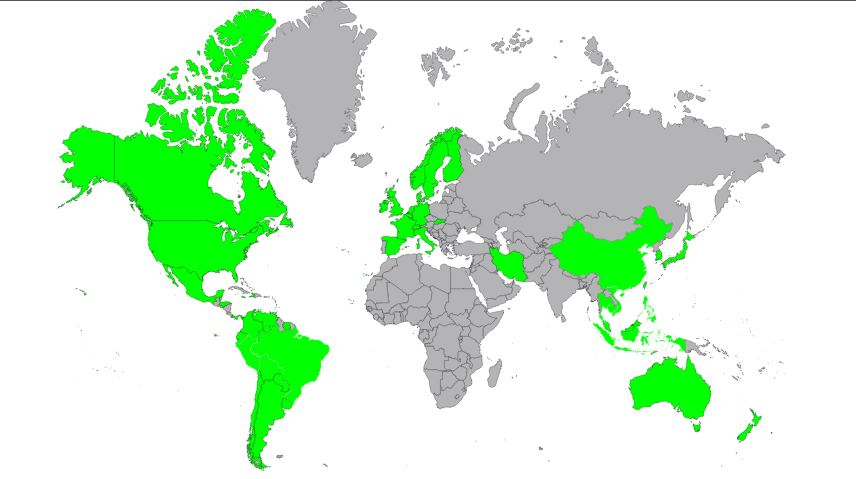 Map for countries which have released film In this corner of the World